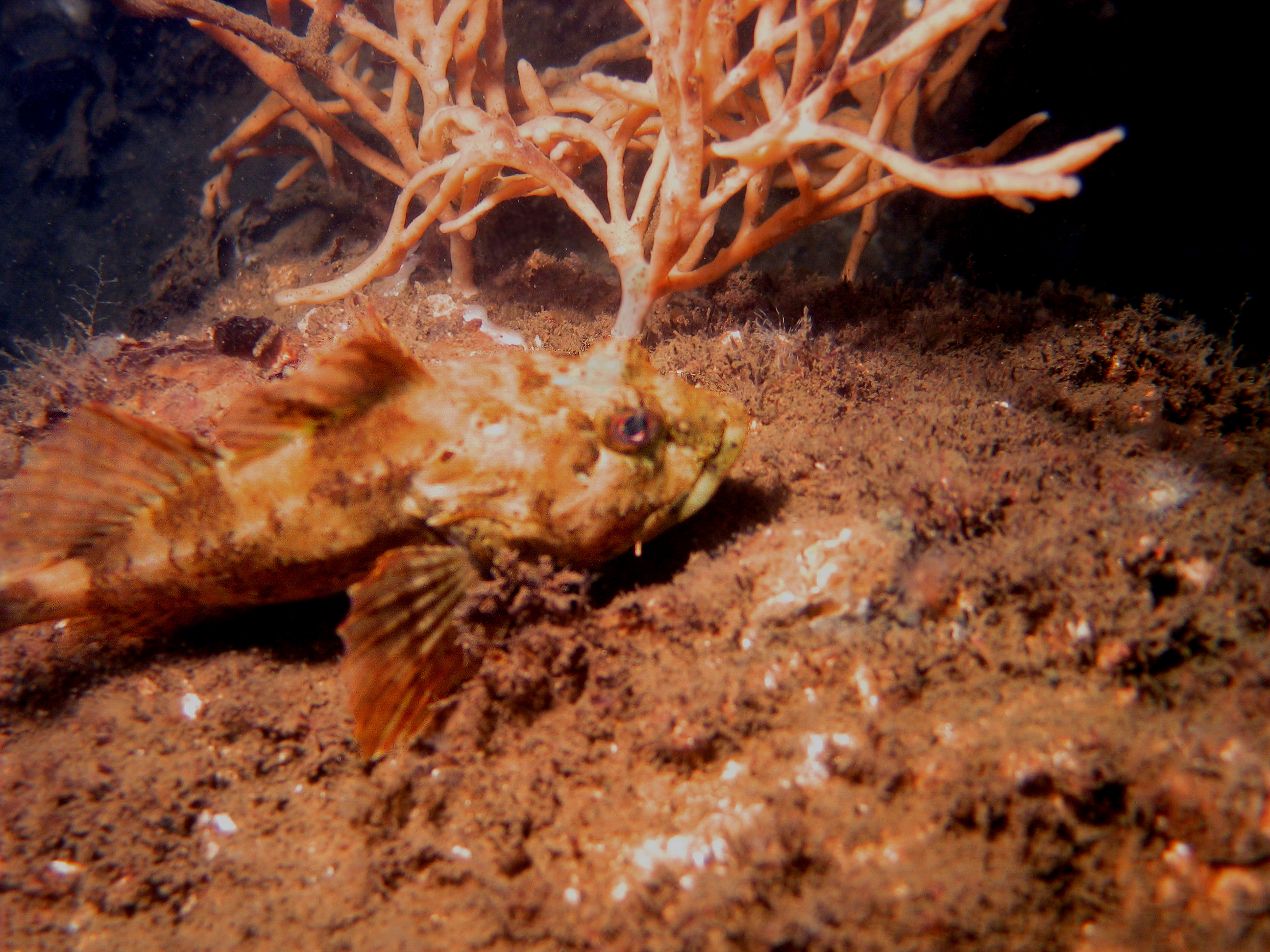 Father Lasher, short-spined sea scorpion